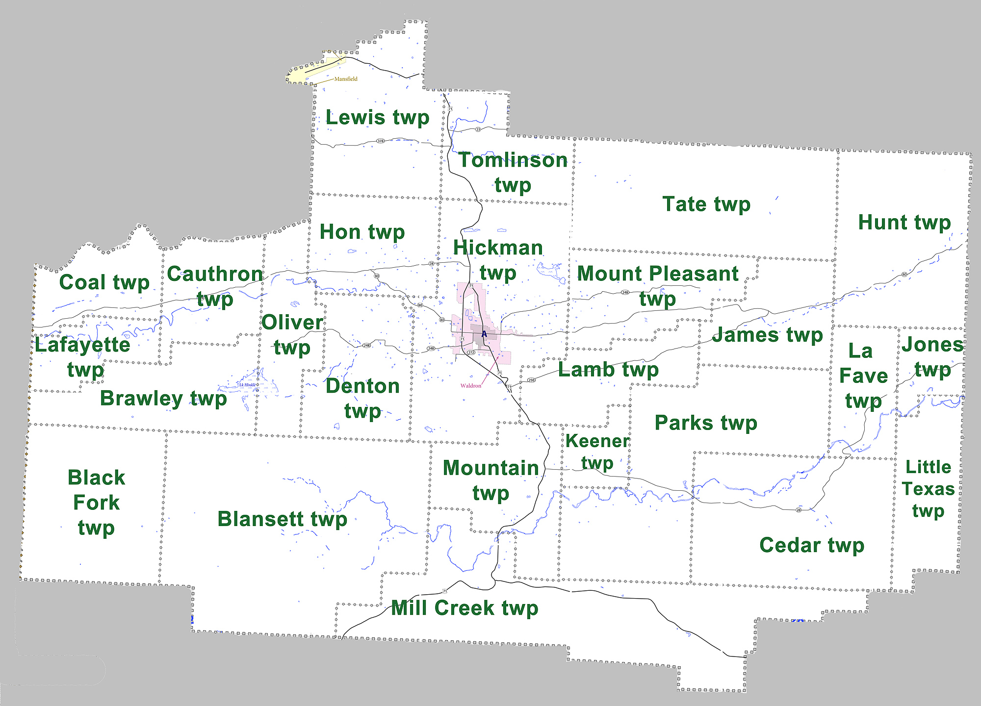 Large map showing townships in Scott County, Arkansas. Modified from US census map (for 2010 census) for Scott County, Arkansas